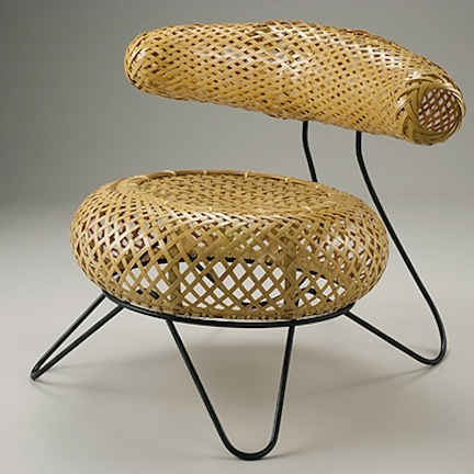 Basket Chair designed by Isamu Noguchi and Isamu Kenmochi. Woven bamboo.